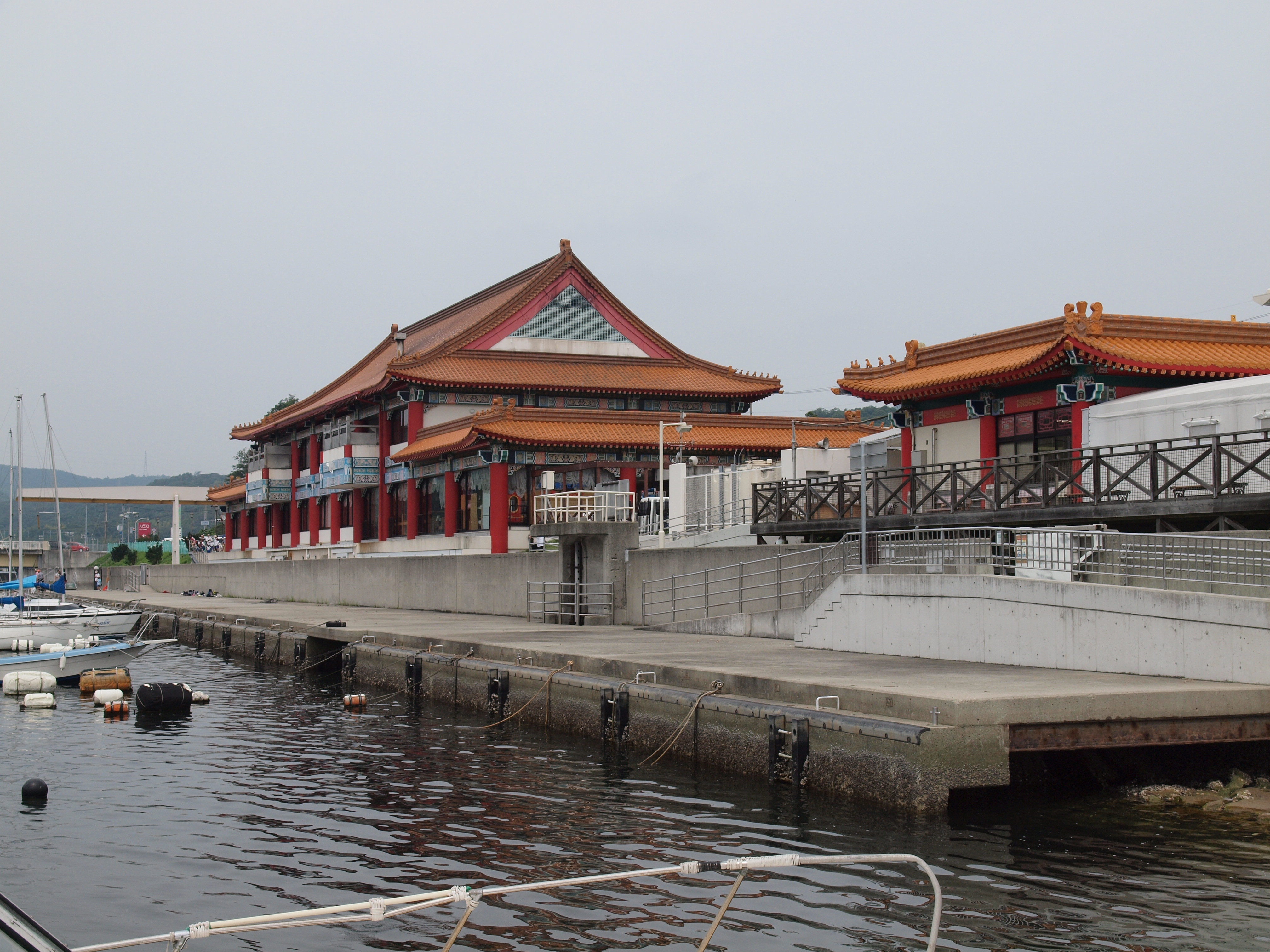 Pai Long-Castle a Roadside Station, Aioi, Hyogo